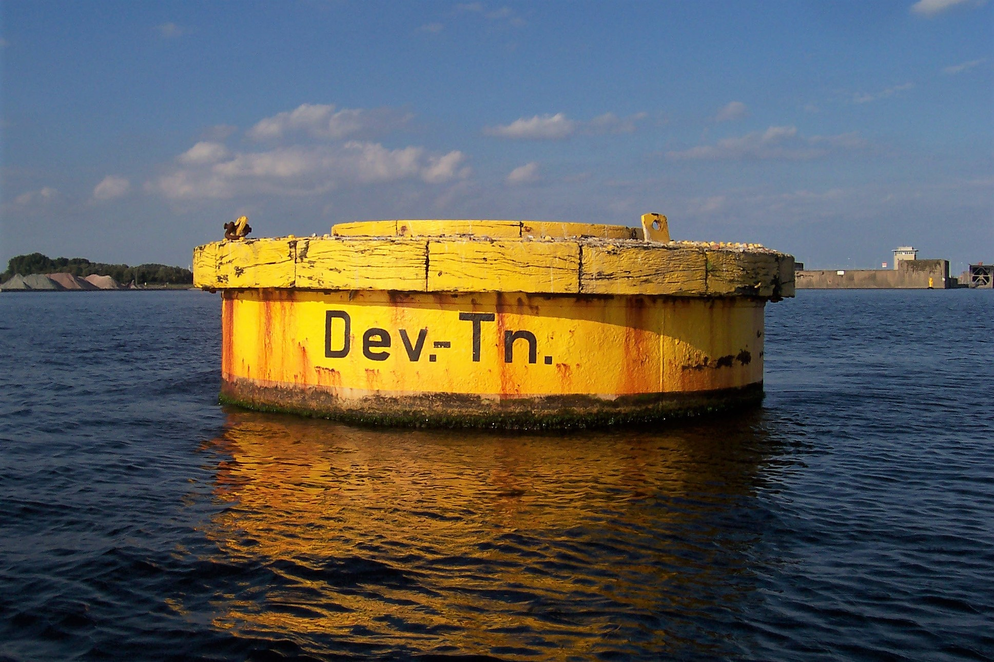 Deviation buoy in the inner harbour of Wilhelmshaven